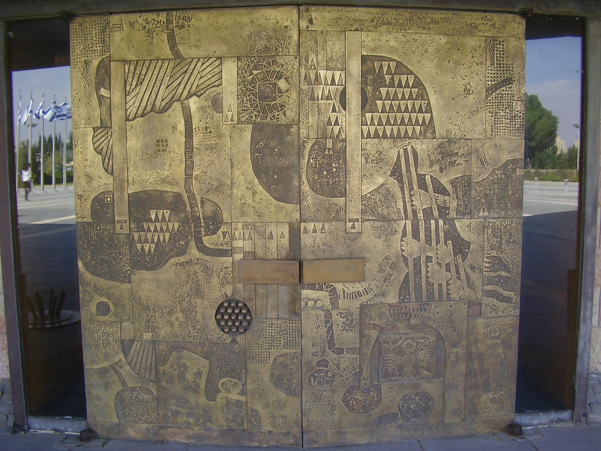 Doors of the Knesset